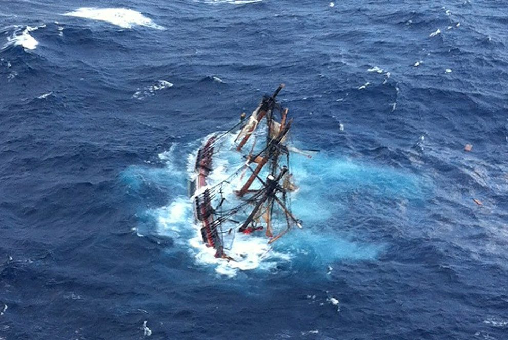 US Coast Guard photo of submerged in the Atlantic Ocean about 90 miles SE of Hatteras, NC after 16 crew members abandoned the sinking ship and were rescued by helicopter Other information USCG Photo by Petty Officer 2nd Class Tim Kuklewski